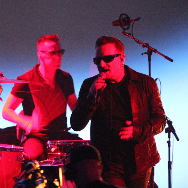 Apple was nice enough to arrange a performance by U2 for my birthday. U2 performing at an Apple keynote event in Cupertino, CA on September 9, 2014, during which the group announced its 13th album, Songs of Innocence